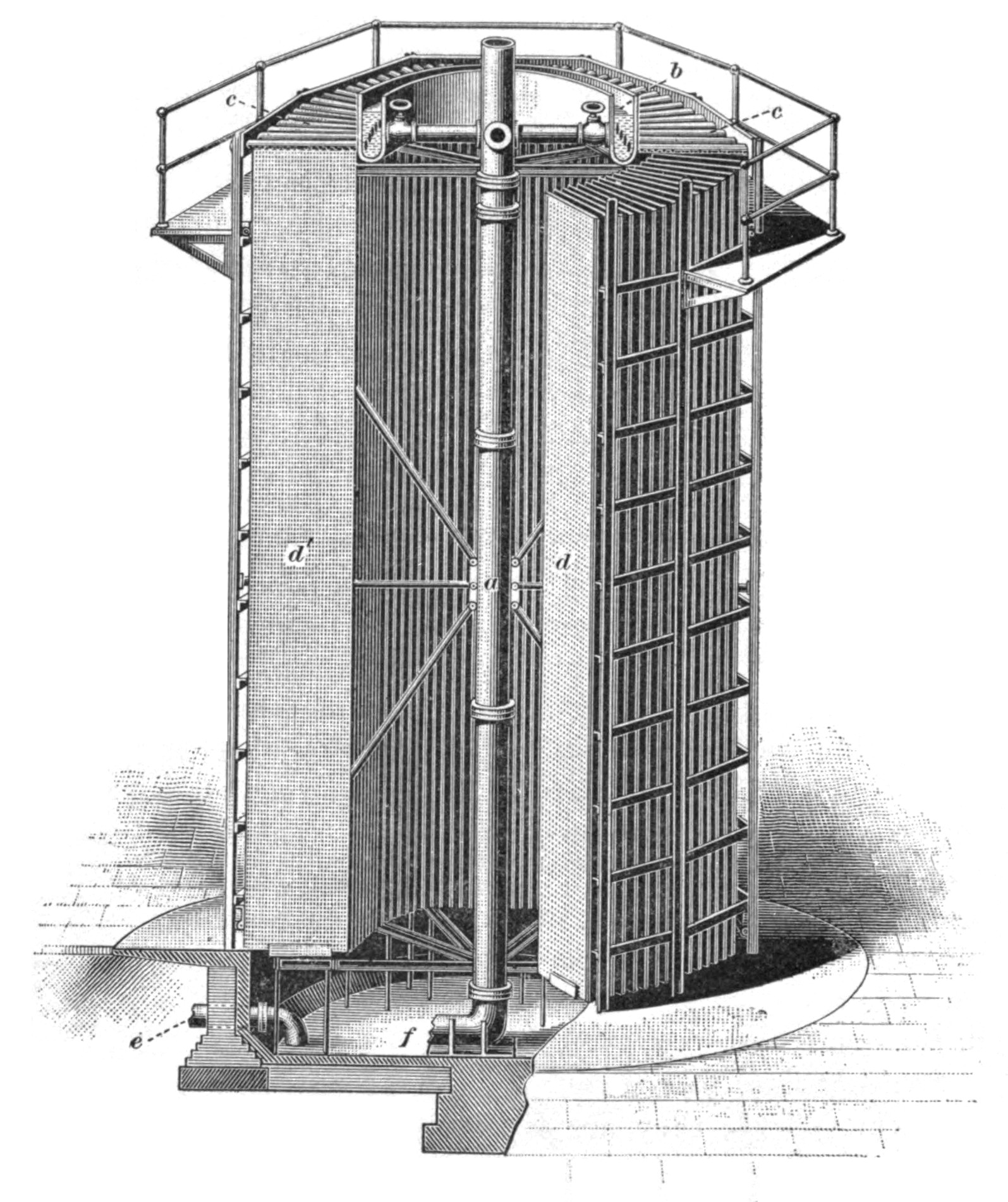 Illustration showing "Barnard's fanless self-cooling tower", an early design of a large cooling tower used in combination with steam engine condensers. For more details and key to the lettering, see source at Section 29:Page 39. (Digitally cleaned up by the uploader)